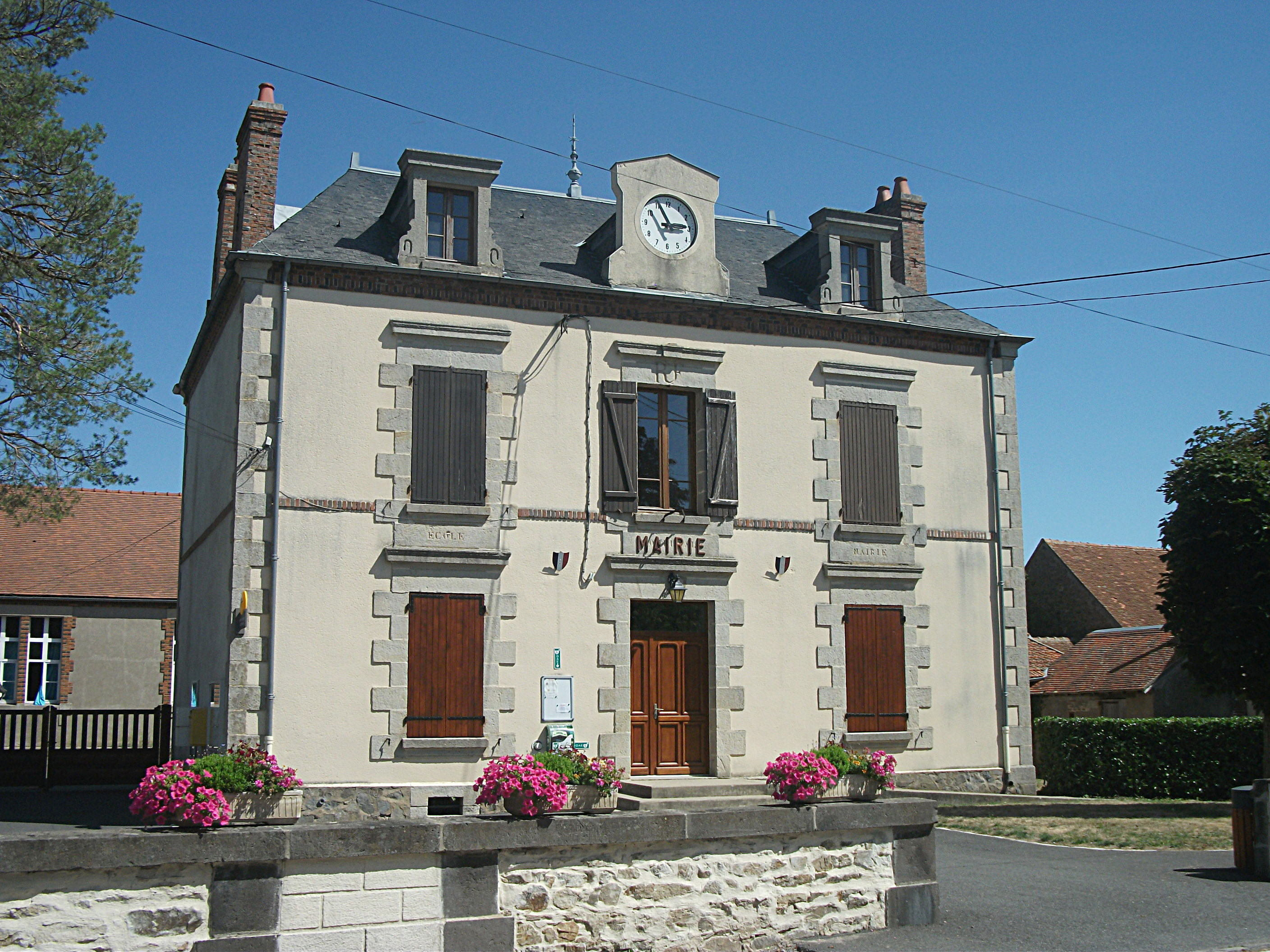 Town hall of Voussac, Allier, Auvergne-Rhône-Alpes, France. [18966]